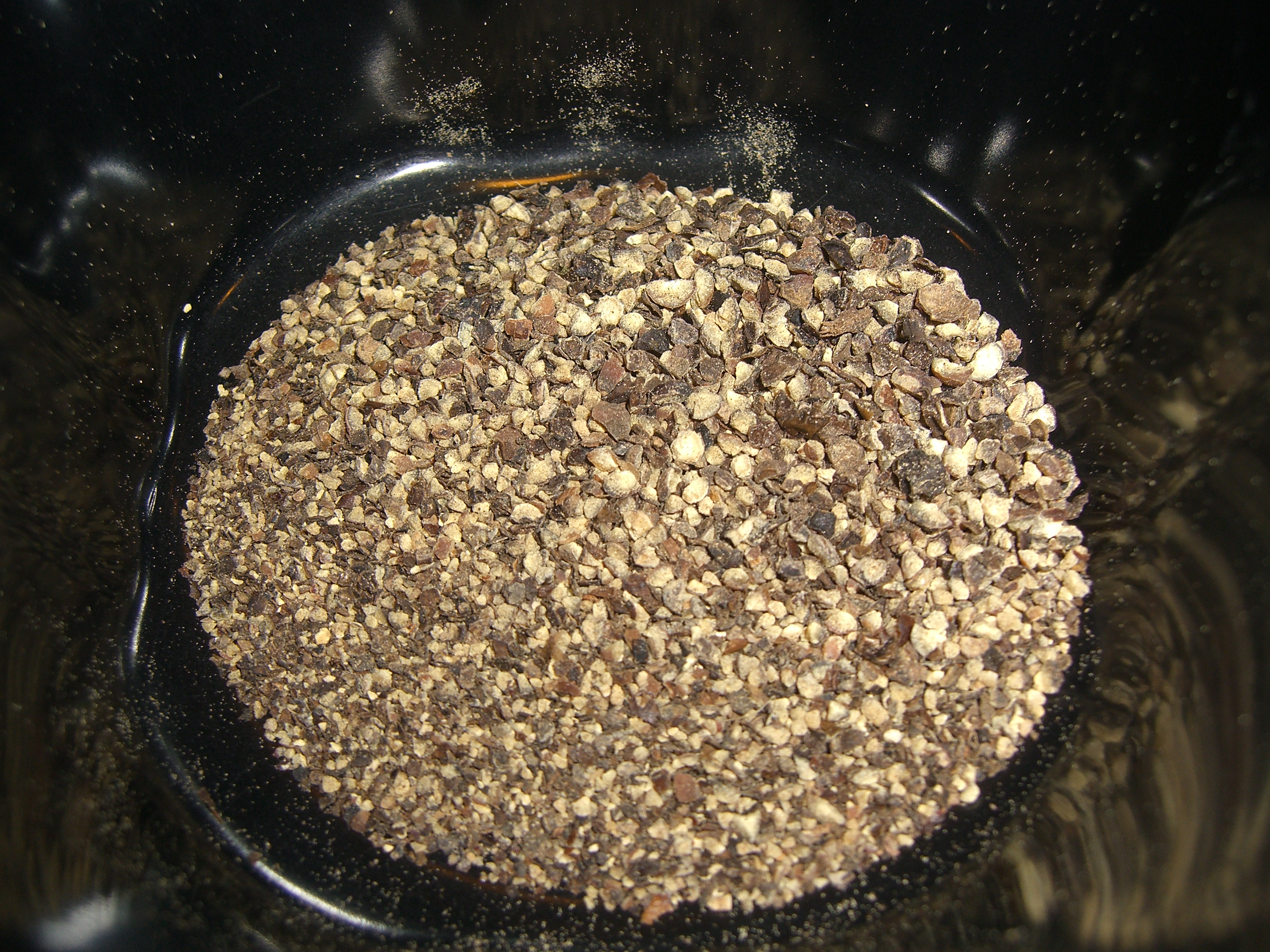 A dish of roughly mashed Black Peppercorns